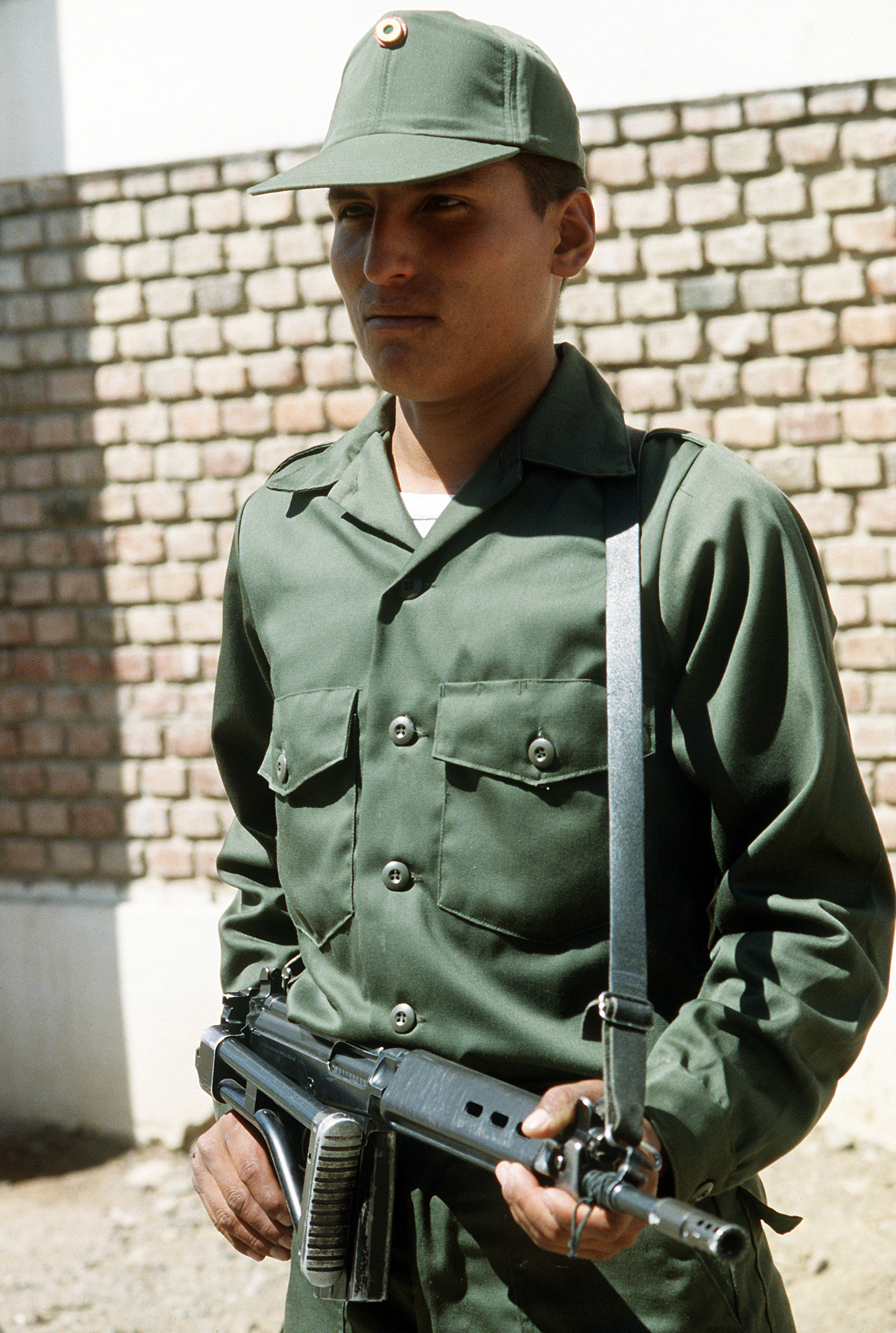 A Bolivian soldier armed with a Belgian-designed 7.62 FN FAL rifle stands guard during Fuerzas Unidas Bolivia, a joint U.S. and Bolivian training exercise.